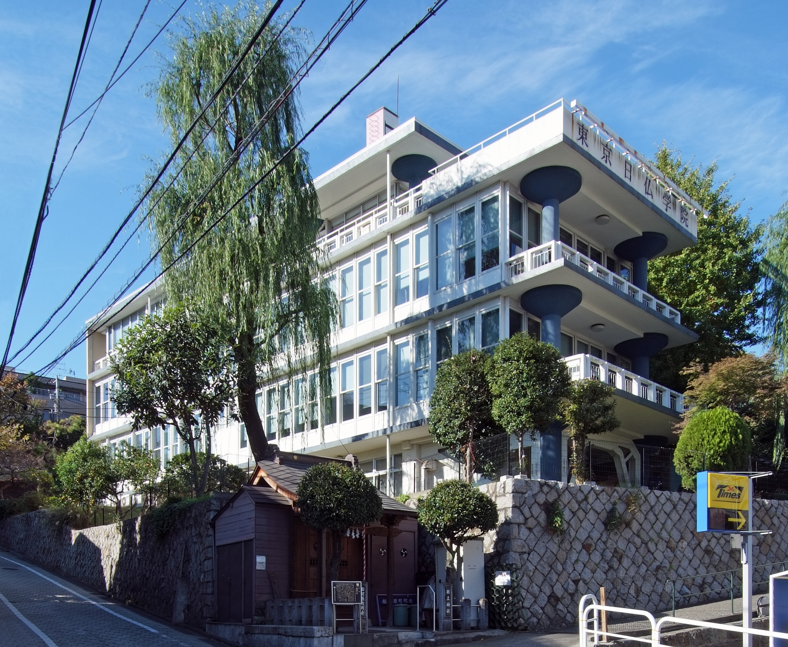 Institute of France-Japan, at Shinjyuku-ku Tokyo Japan, designed by Junzo Sakakura in 1951.